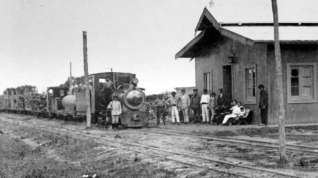 Unidentified station of Ferrocarril Económico Correntino, with some people on the platforms and a train stopped there.